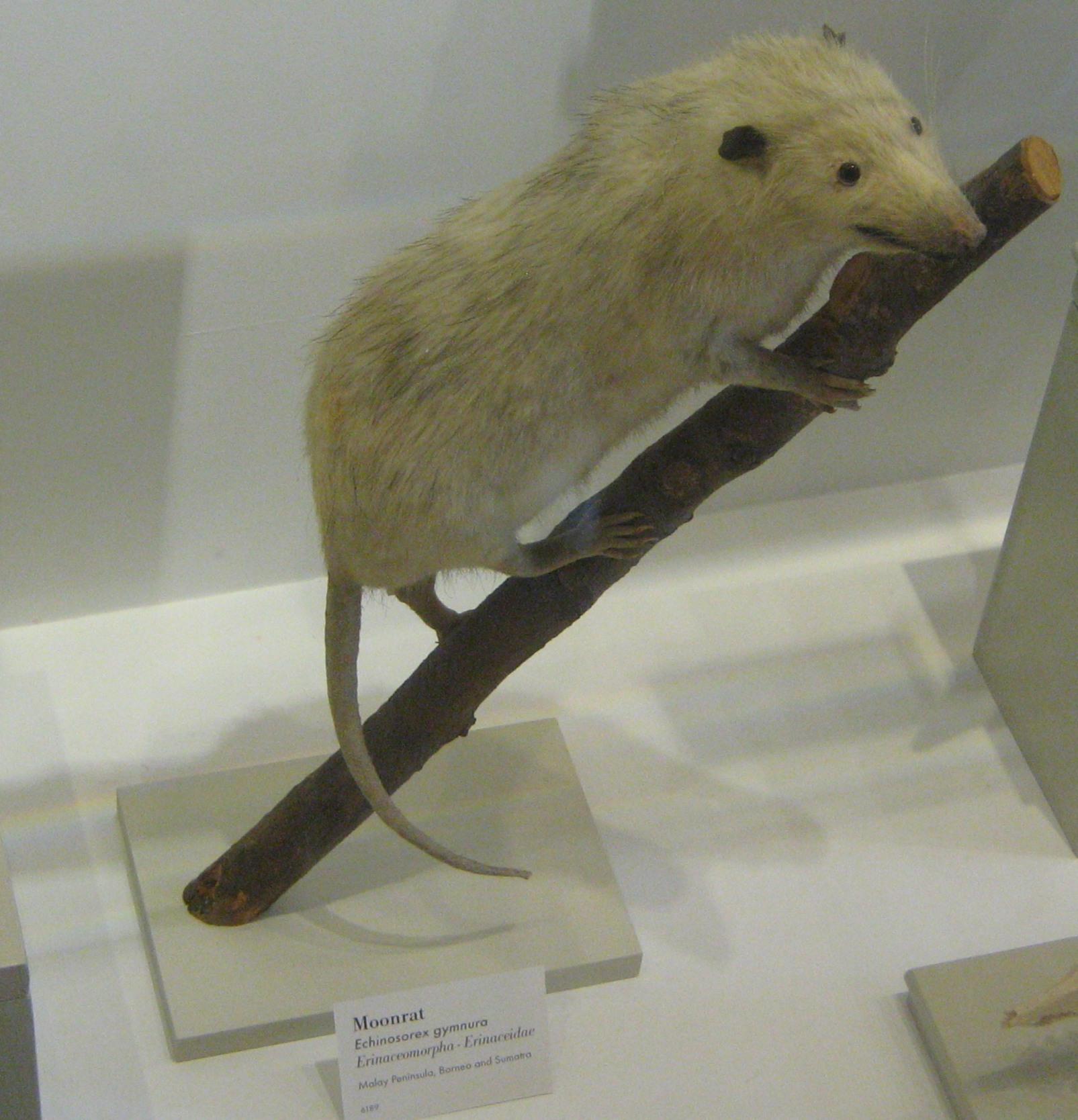 A stuffed Echinosorex gymnura at the Harvard Museum of Natural History.